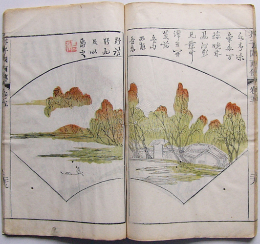 Two pages of Manual of Mustard Seed Garden (Jieziyuan Huazhuan), 1st Set vol. 5th, later edition in 1782 published in Sushu,China, color woodblock printing on paper, bound by stitching